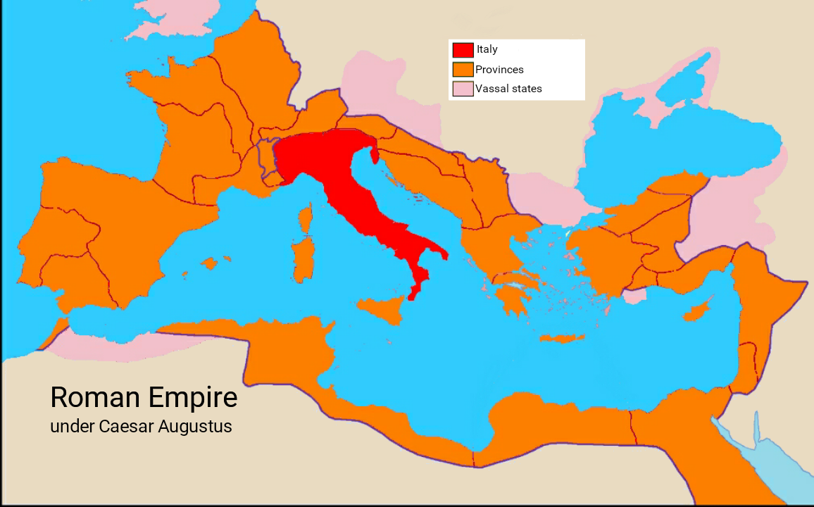 Roman Empire under Caesar Augustus